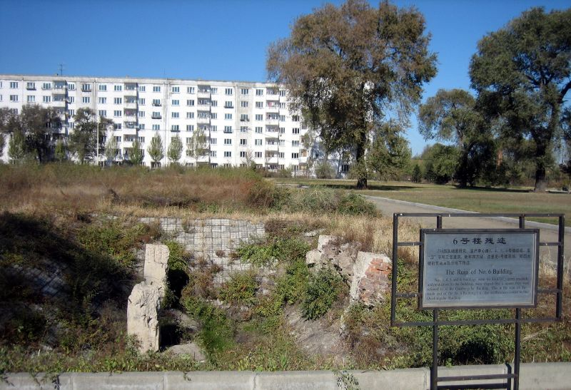 Unit 731 Biological Warfare Site of the Japanese Imperial Army in Pingfang, near Harbin.